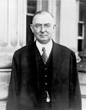 American congressman William Evans Crow